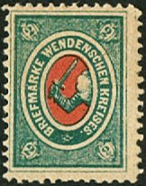 Postage stamp of the Wendensche Kreispost, 1875.